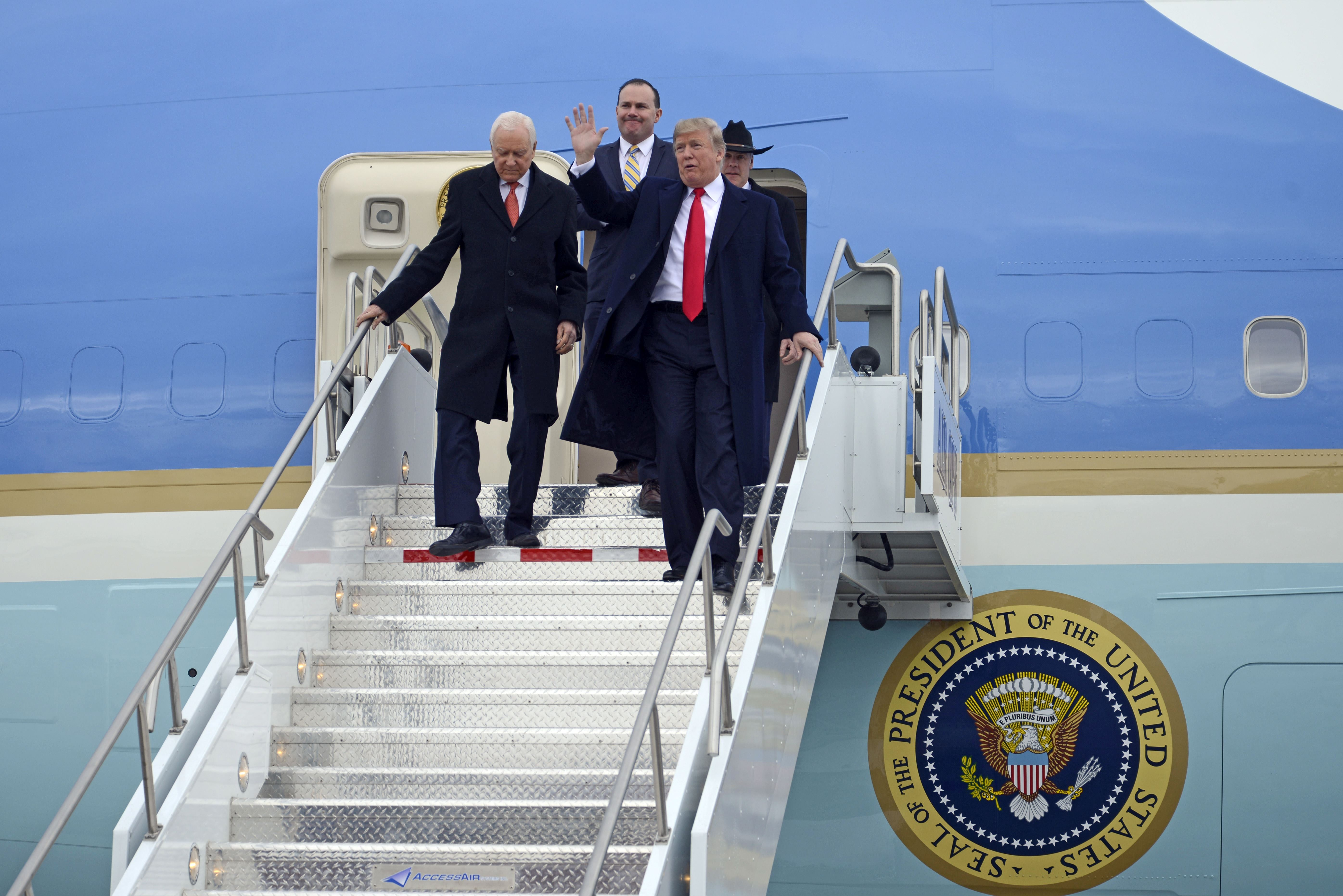 President Donald J. Trump visited the Utah Air National Guard's Roland R. Wright Air National Guard Base in Salt Lake City accompanied by Utah Senators Orrin Hatch and Mike Lee on Dec. 4, 2017. After arriving in Air Force One, Trump traveled via motorcade to the Utah State Capital where he signed two Presidential Proclamations before departing the state. (U.S. Air National Guard photo by Tech. Sgt. Annie Edwards)